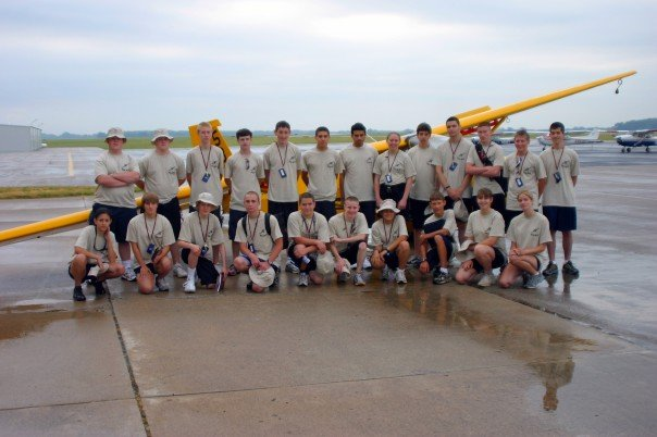 Civil Air Patrol cadets attending the 2007 National Flight Academy - Glider in Mattoon, Illinois.